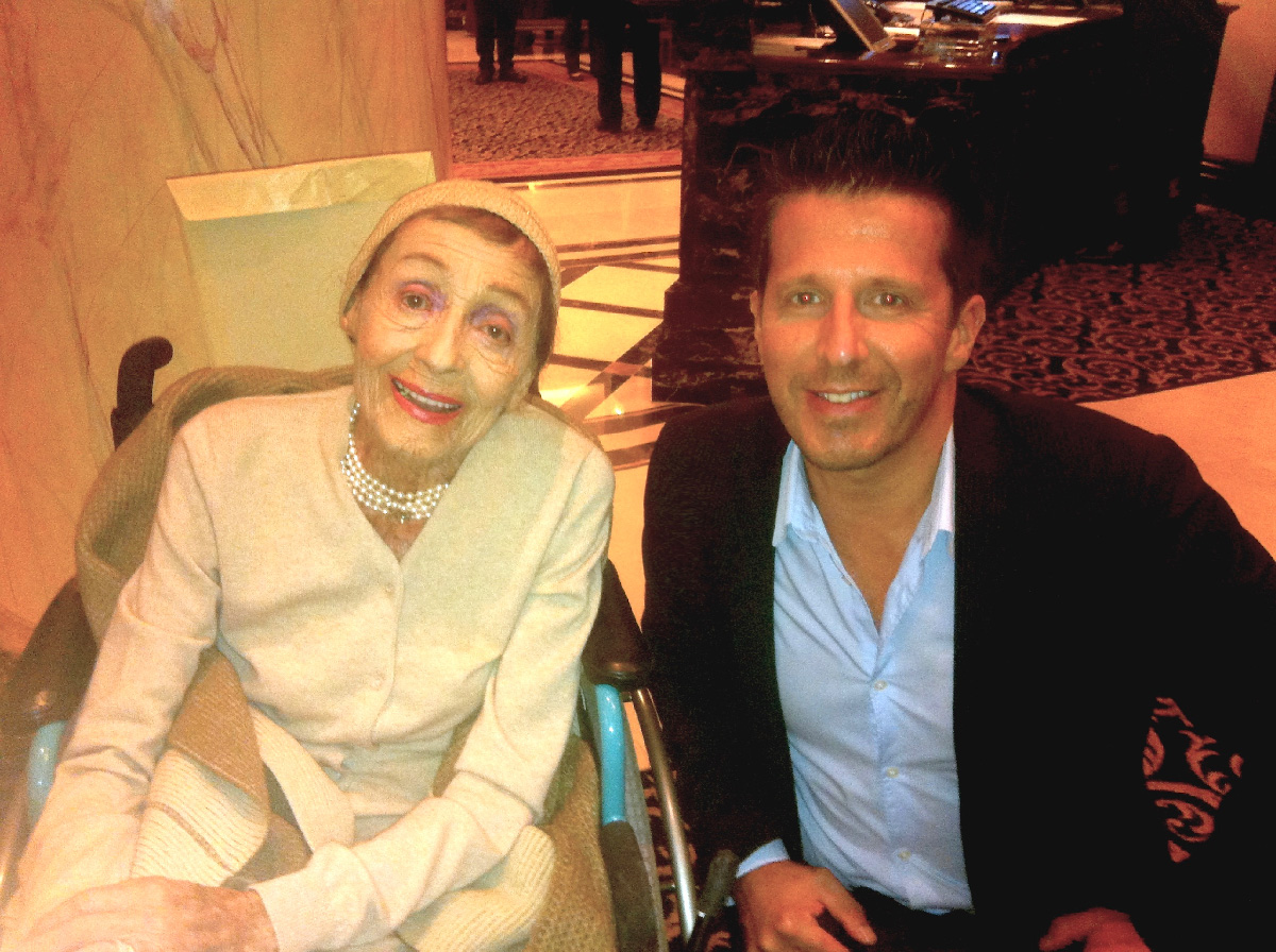 Luise Rainer & Paul Baylay at the Ritz Carlton Hotel in Berlin, 2011